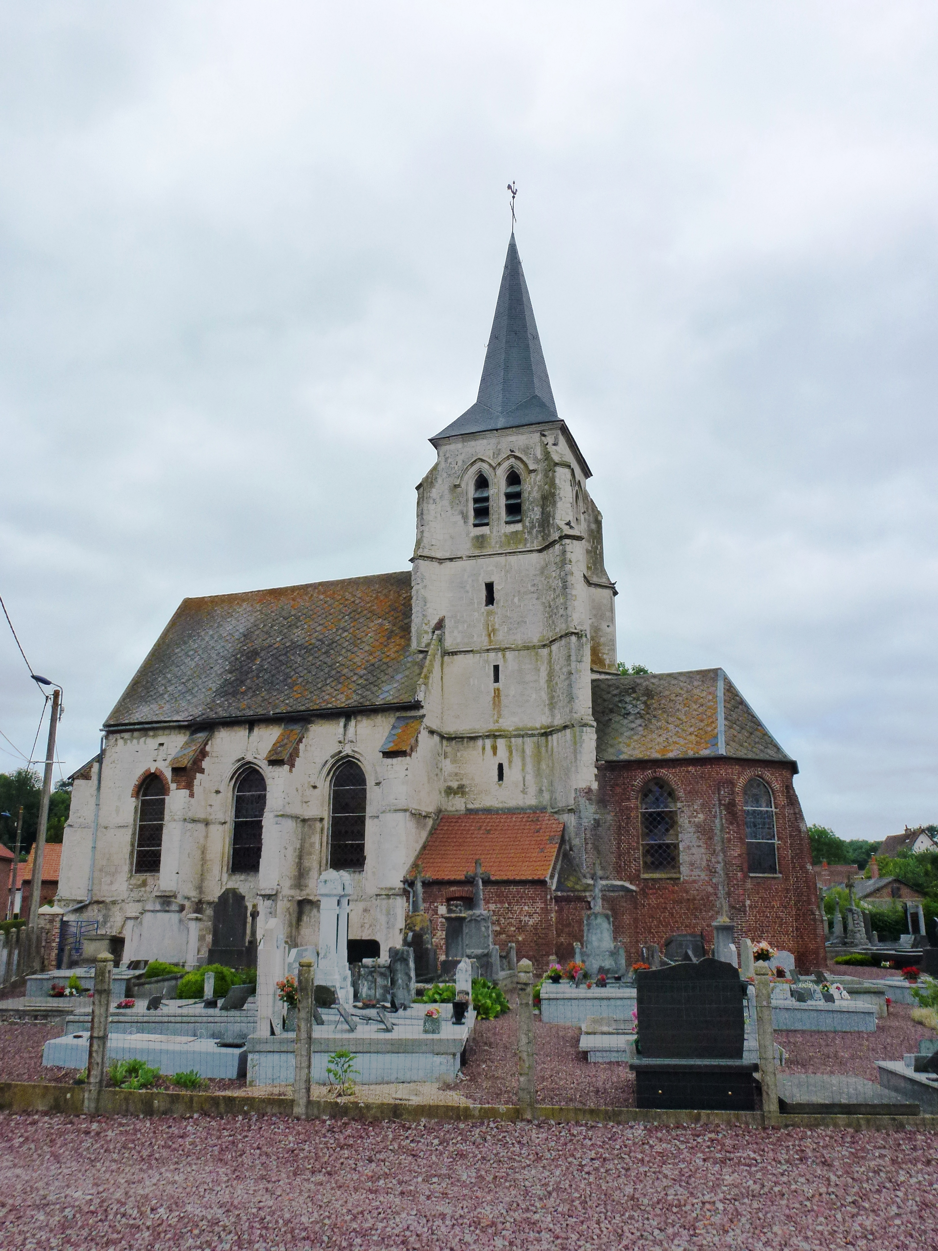 Linghem (Pas-de-Calais) église